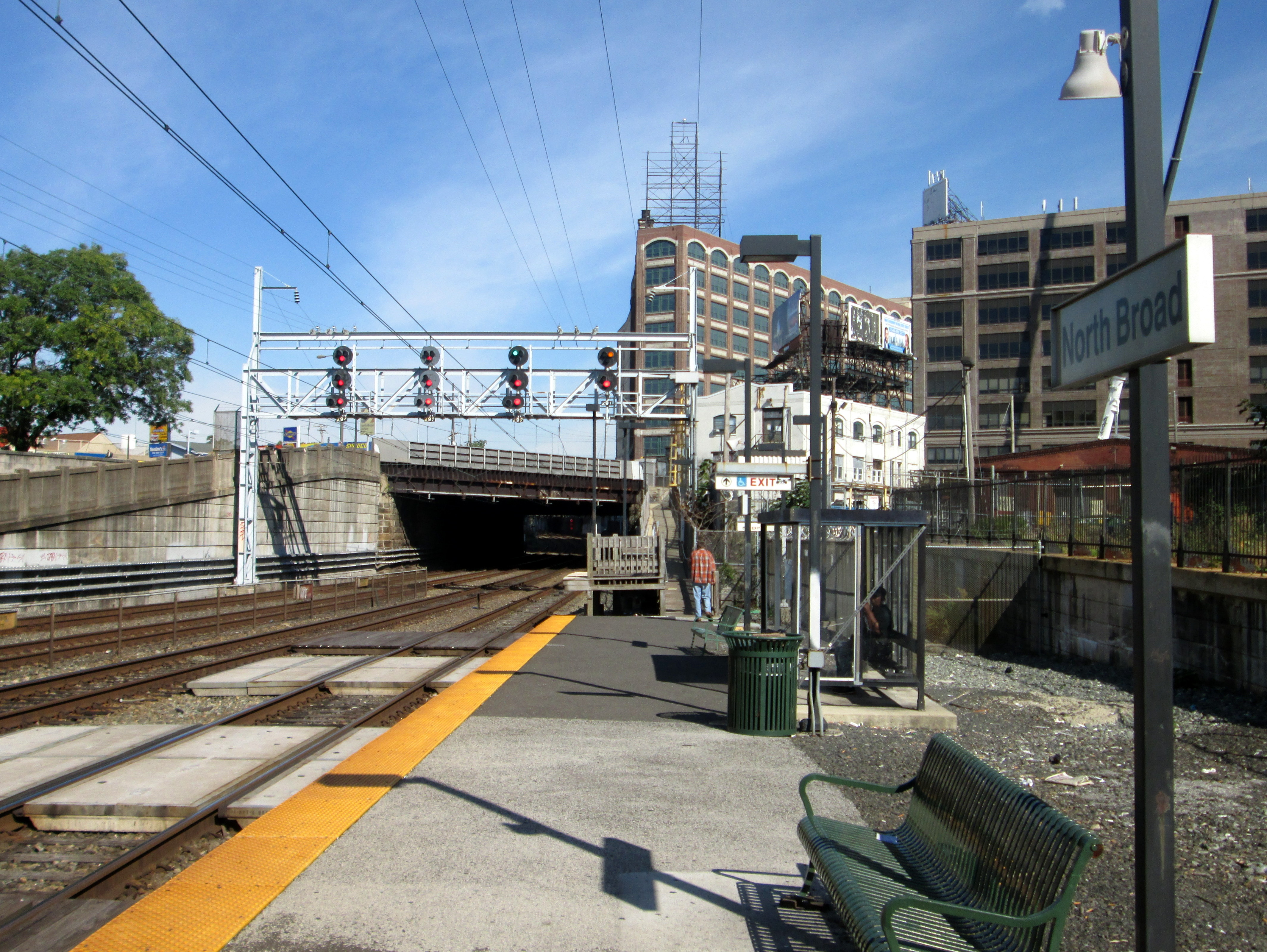 North Broad Station northbound platform in September 2013